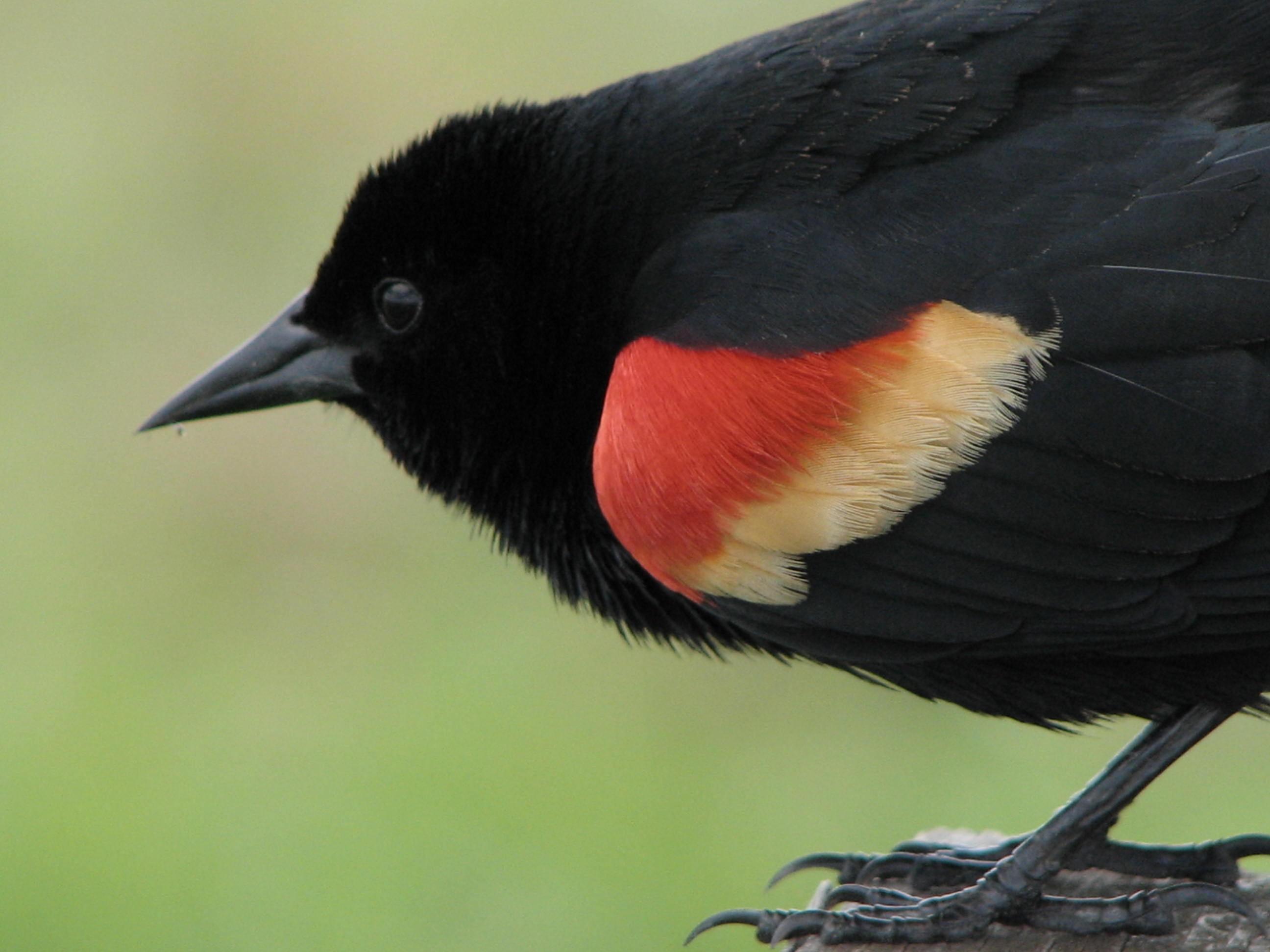 Red Wing